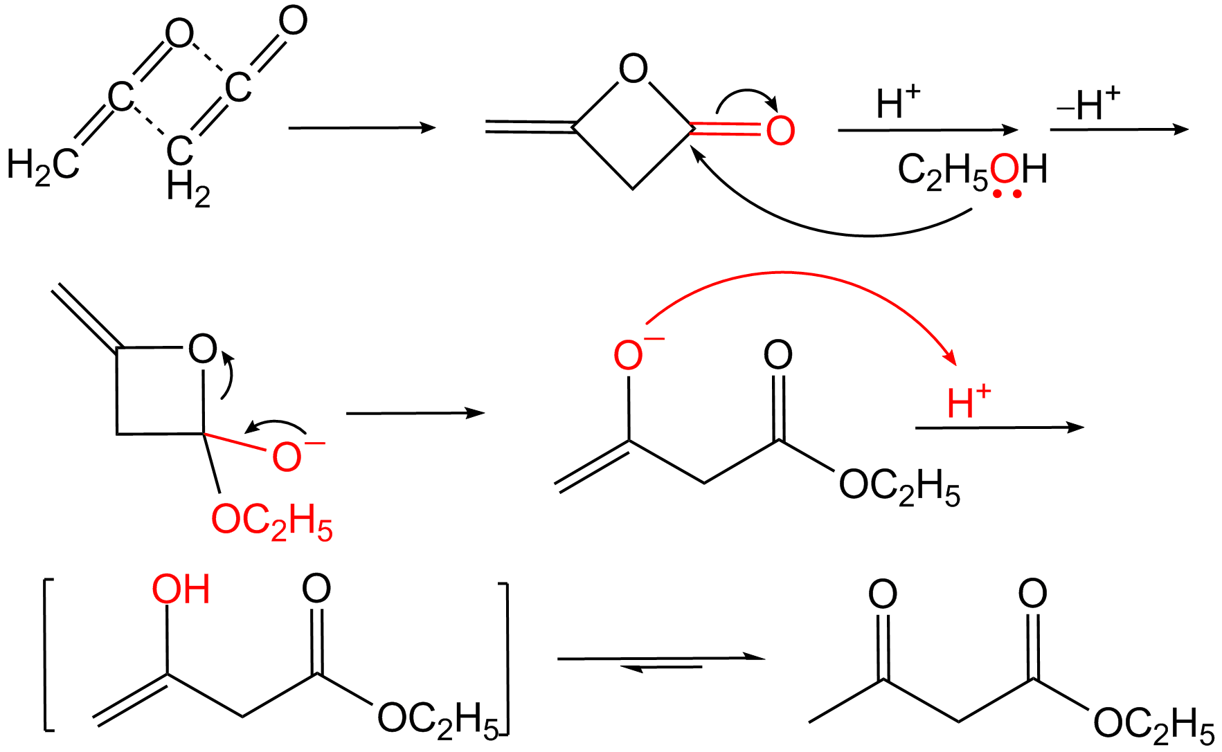 Diketene reacts with ethanol